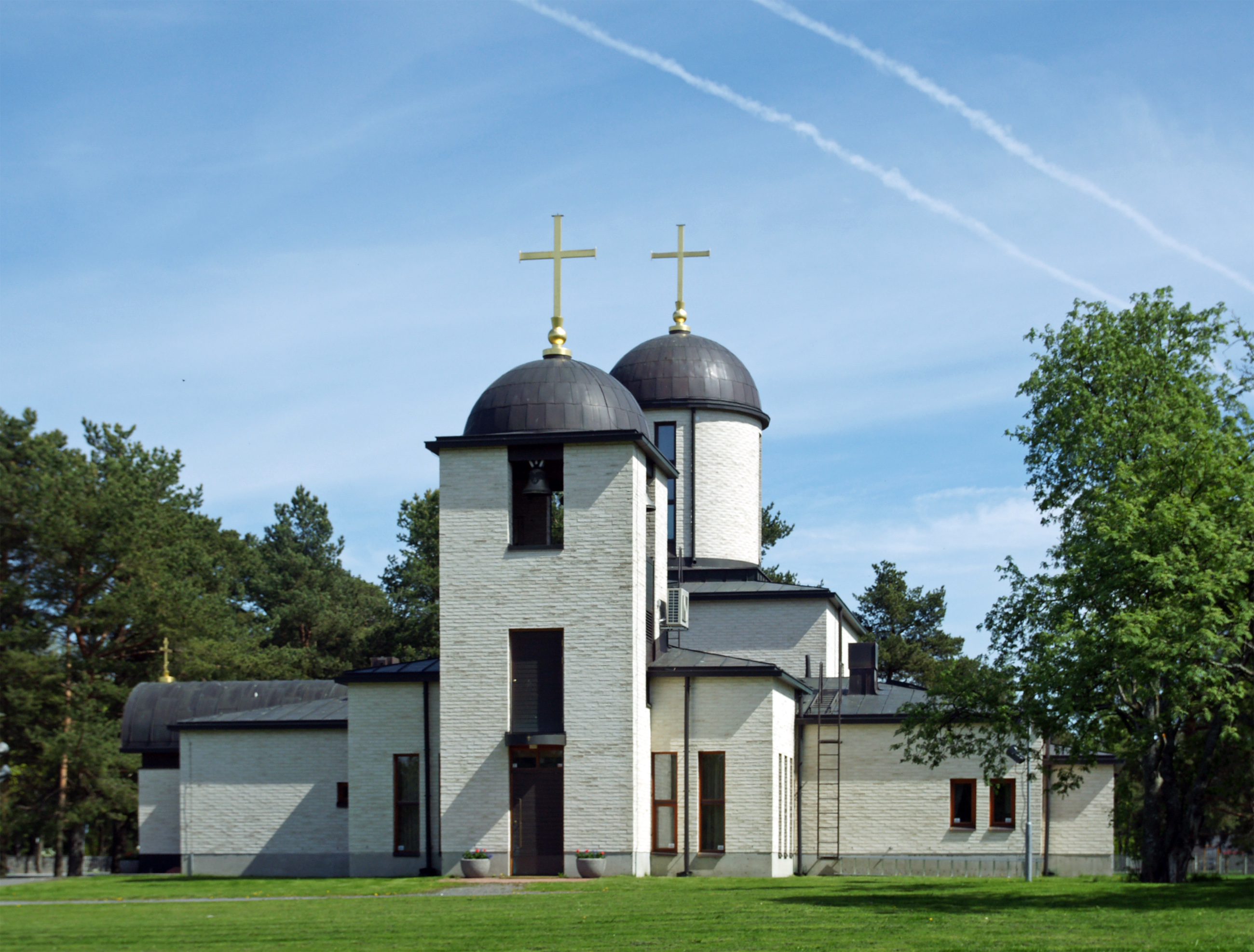 Apostle John the Theologian Church, Pori, Finland.